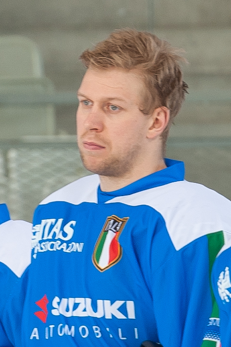 Euro Ice Hockey Challenge Vienna, February 7, 2015, Italy vs. Slovenia